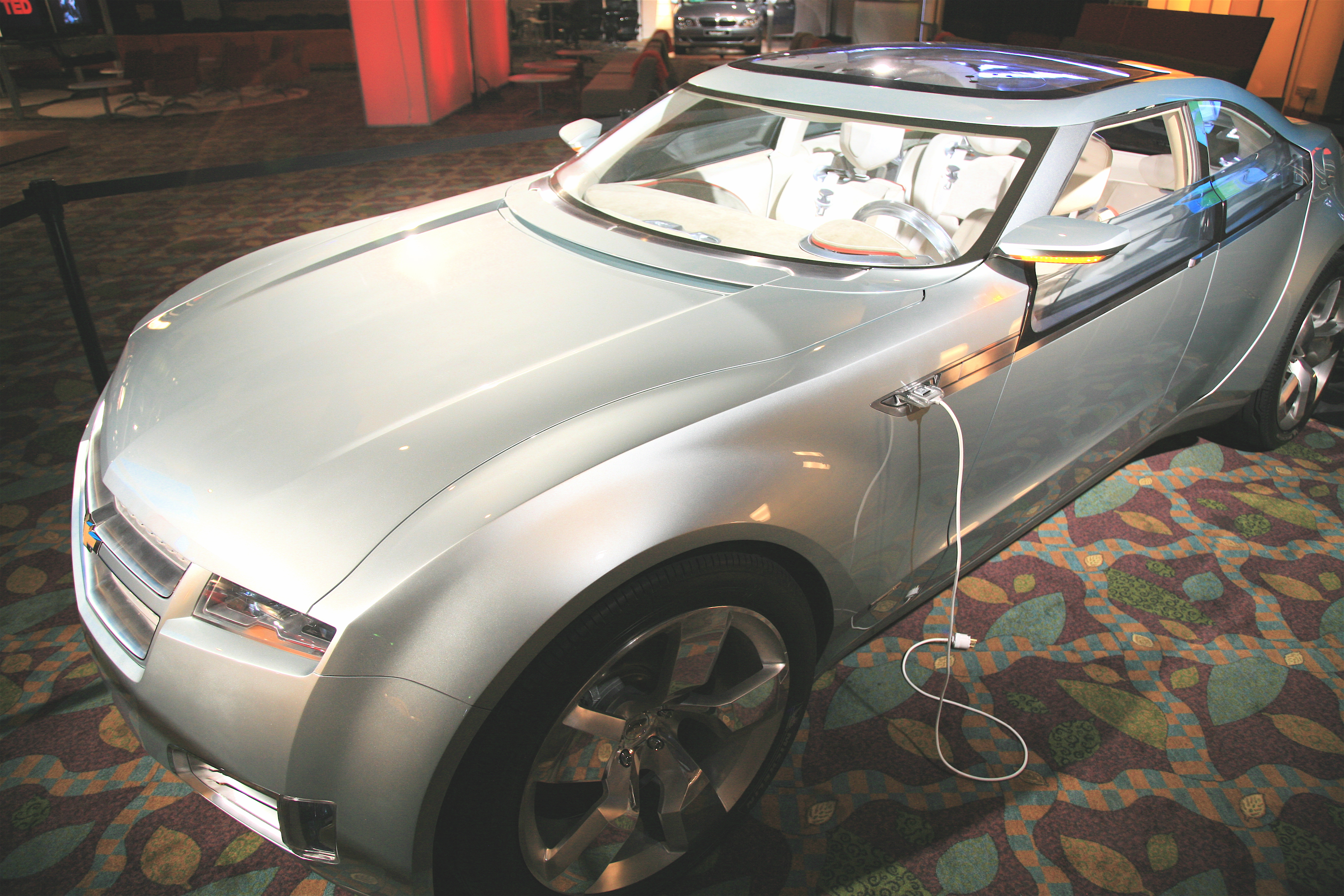 A plug-in, flex-fuel hybrid car. It has a 40-mile range on batteries and then falls back to a three cylinder engine that can be configured for gas, ethanol or biodiesel (giving a blended 50 MPG equivalent). It has 110V plugs on both sides, but the cords seem way too short. I thought they should be extension cords, with spring-loaded retraction, so you can mooch power from your friends when you visit. =) Concept cars seem like a tease to me since so few make it to production.